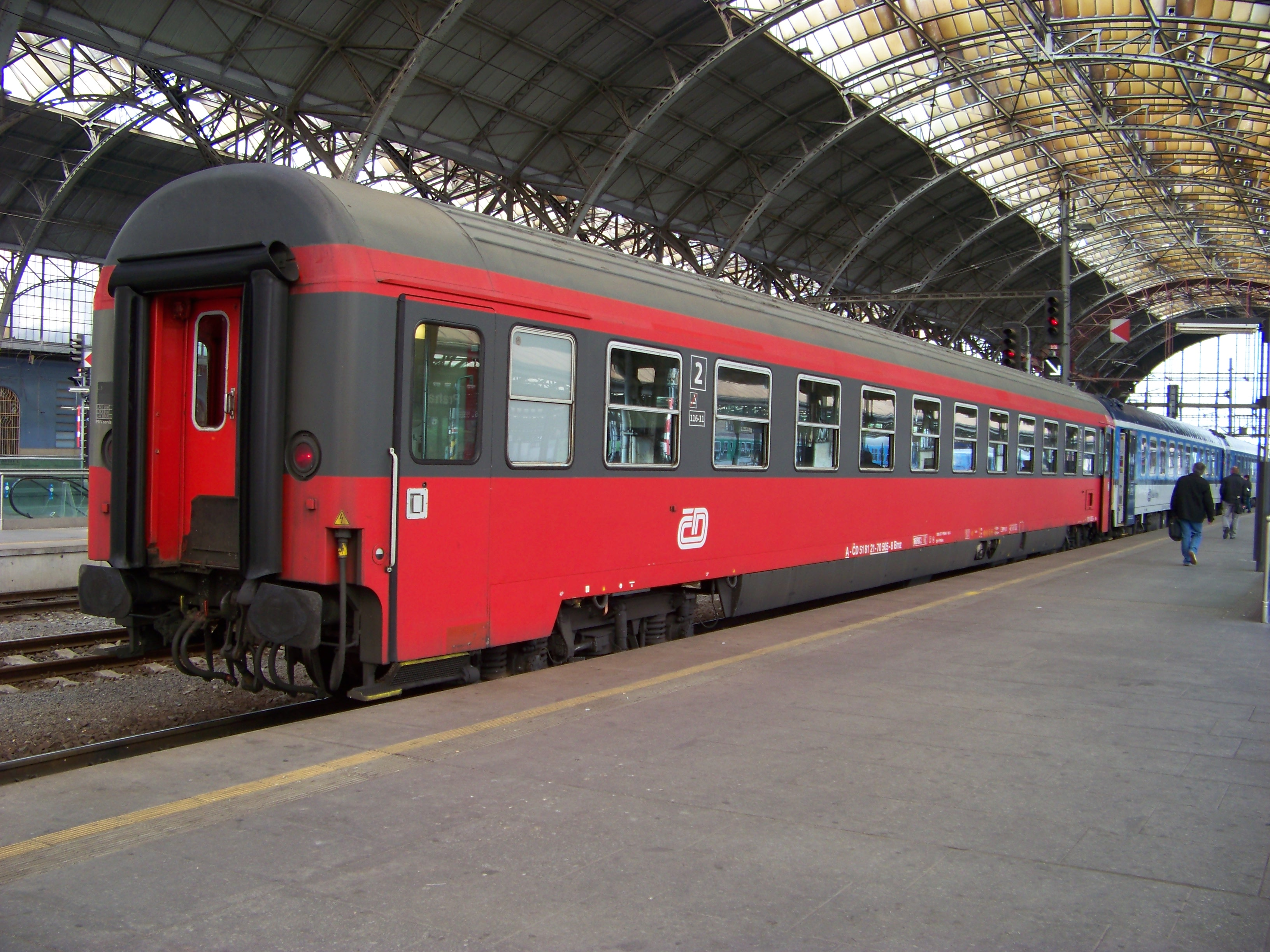 Prague-Vinohrady, Czech Republic. Praha hlavní nádraží, a train.